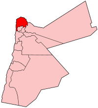 Map of Jordan showing Irbid governorate.